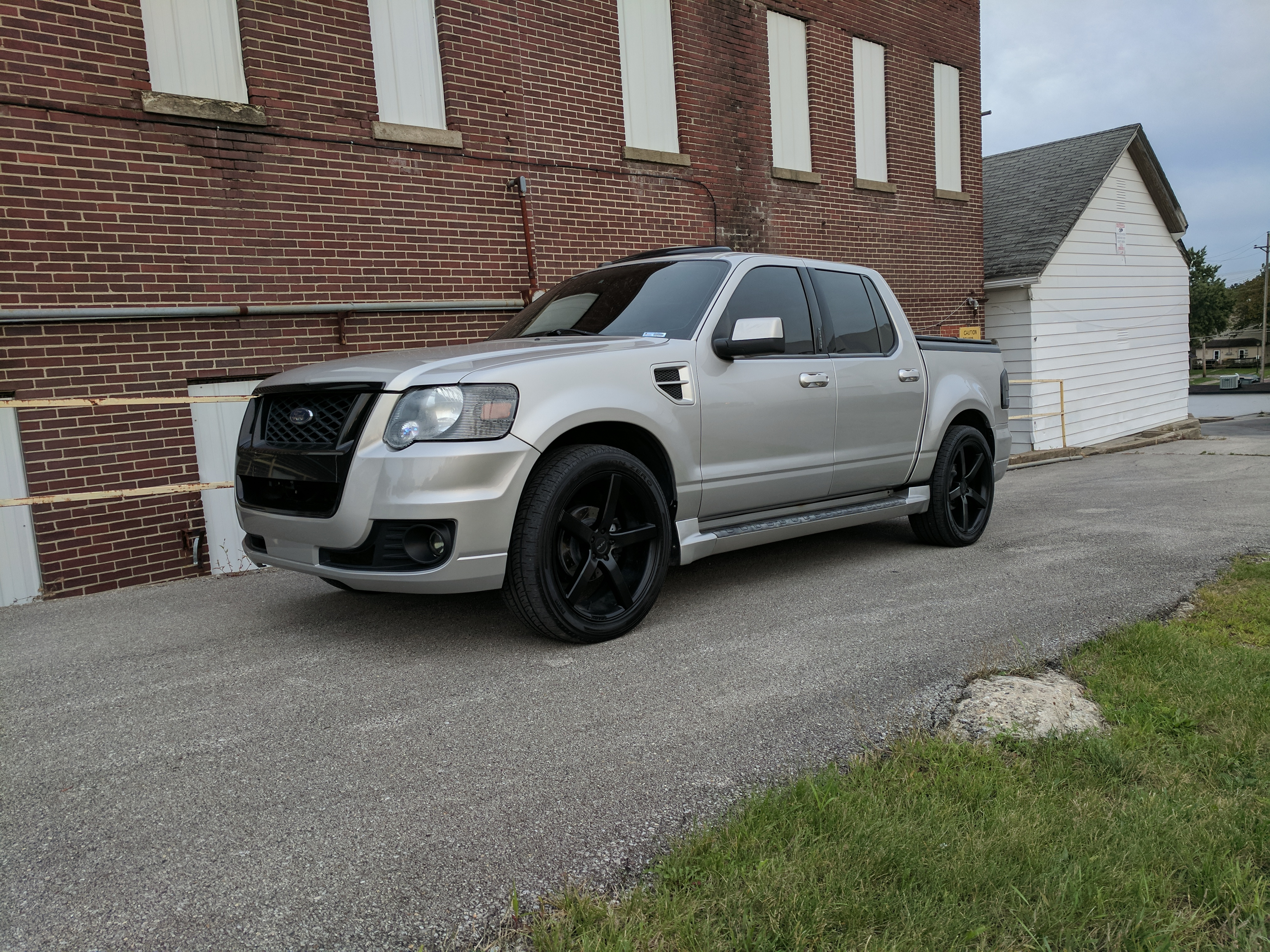 2008 Explorer Sport Trac Adrenalin